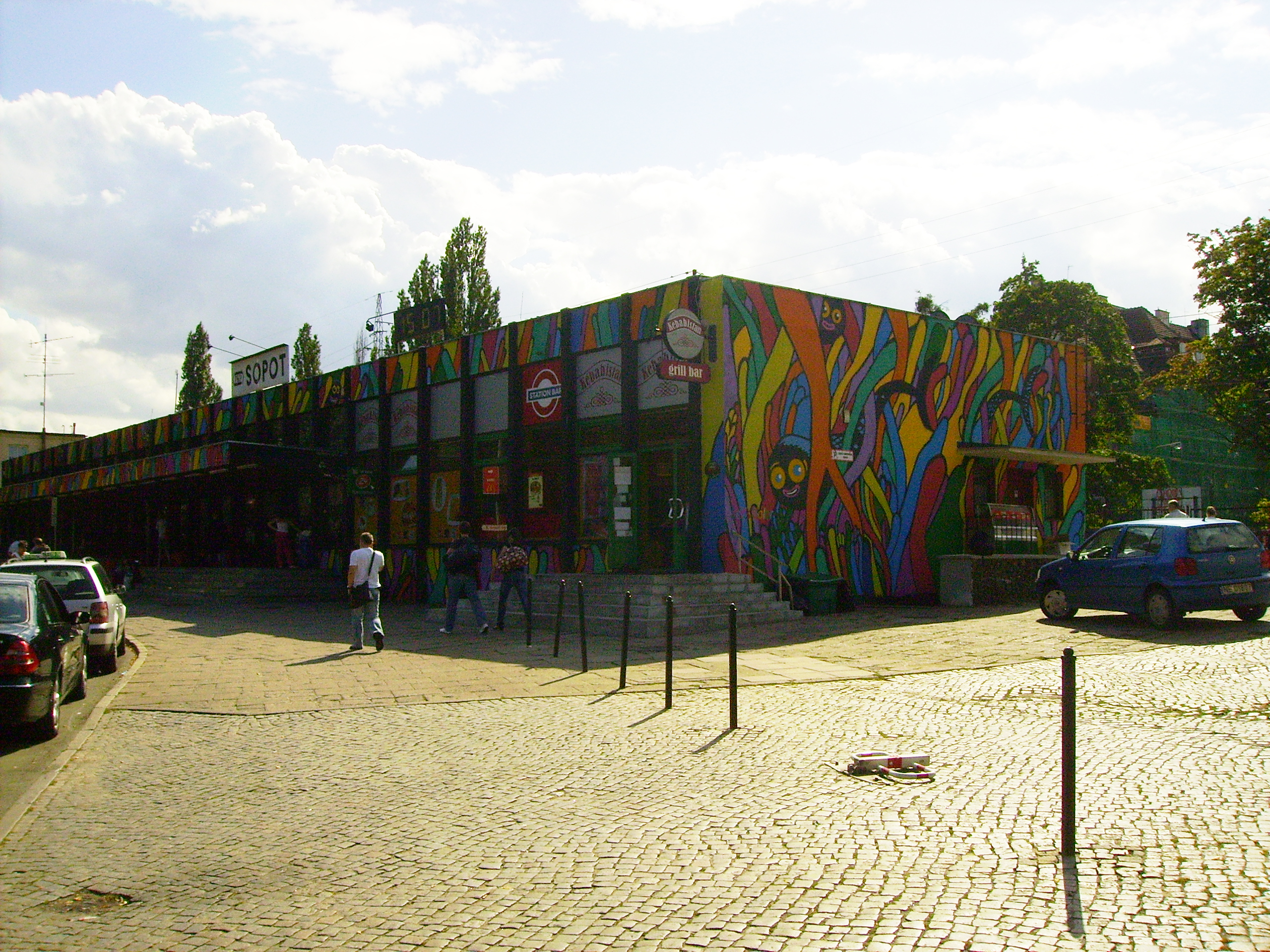 Train station building Sopot, Poland.